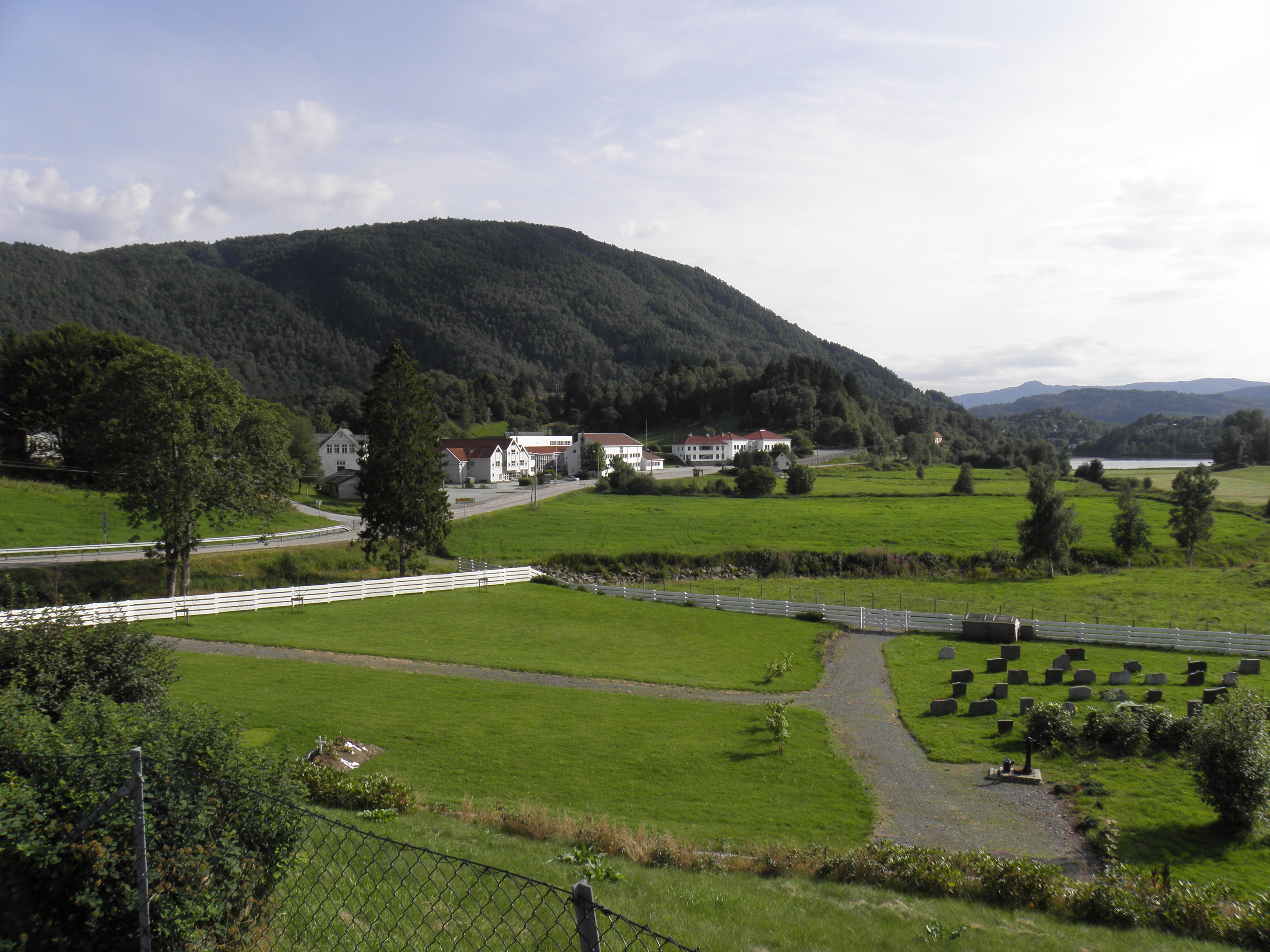 A view of a northern part of Uggdal, showing among other things the administrative buildings of Tysnes (a couple of the buildings in the middle of the image). The tallest peak on the distant horizon is Mehammarsåto.